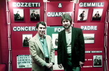 Cozgem Records, 1982